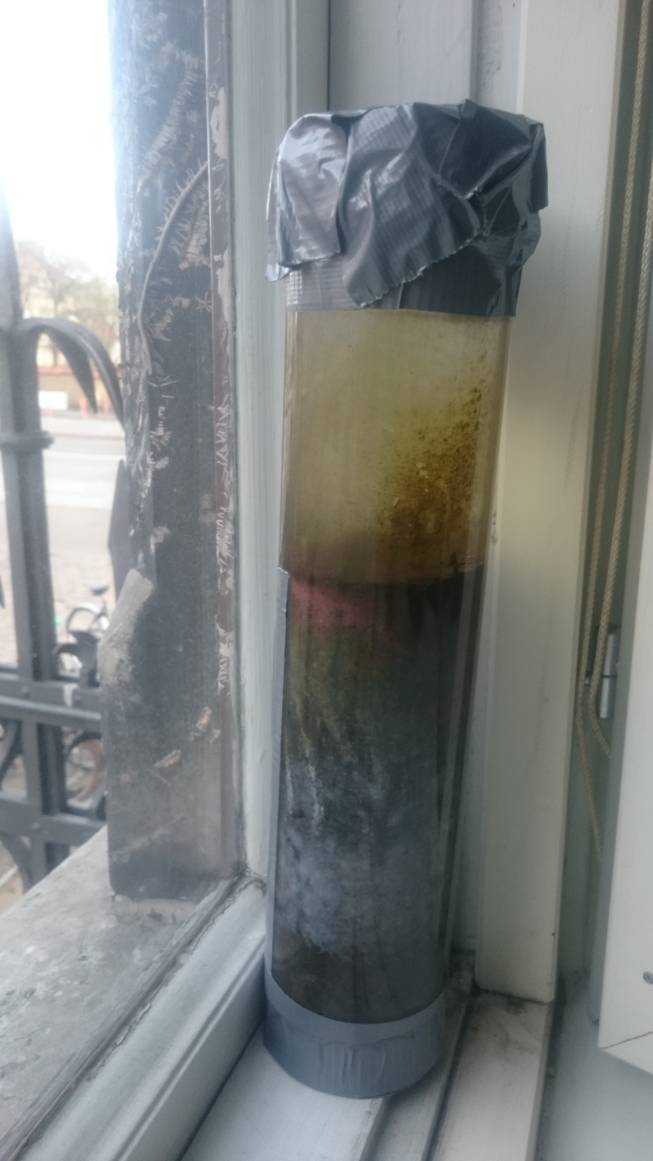 Winogradsky column